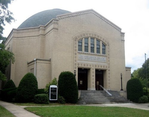 A view of Temple Beth Israel from Union Avenue in Altoona, PA.